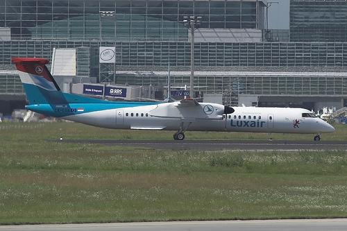 LX-LGA, first Dash 8 for Luxair and the first one in new colors